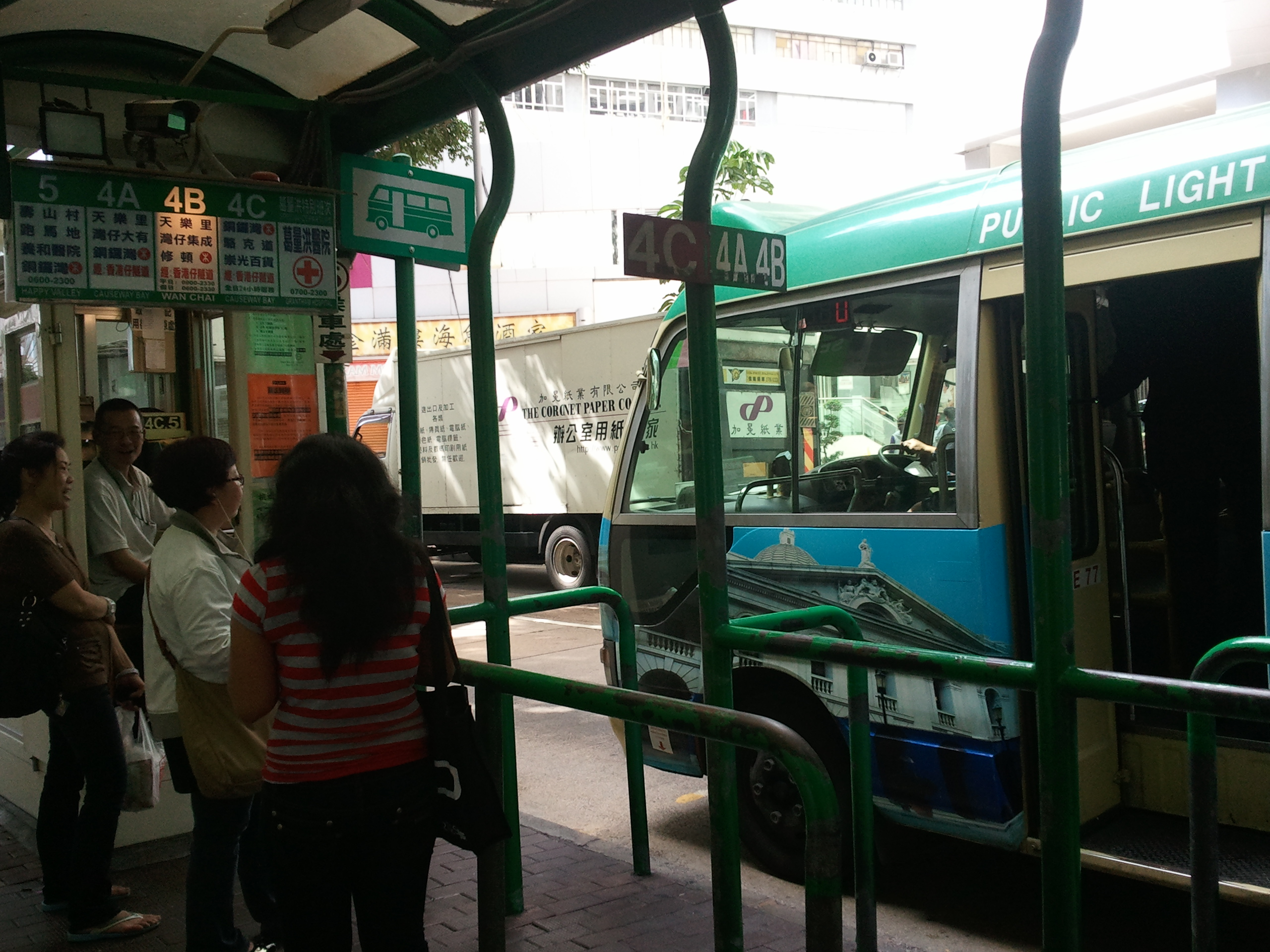 Hong Kong Public Light Buses Operator: AMS Public Transport Aberdeen Terminal (Aberdeen Centre) of PLB 4, 4A, 4B, 4C and 5. PS: This is a non-smoking area, offenders would be charged.